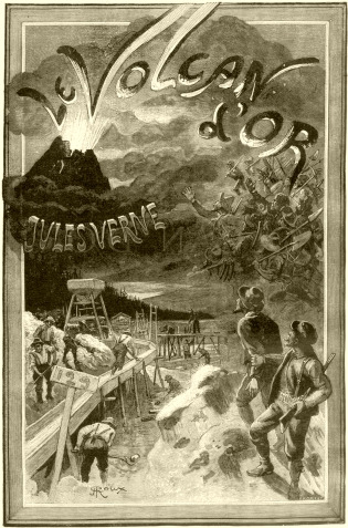 An illustration from Jules Verne's novel "The Golden Volcano" (or "Volcano of Gold", 1906) drawn by George Roux.